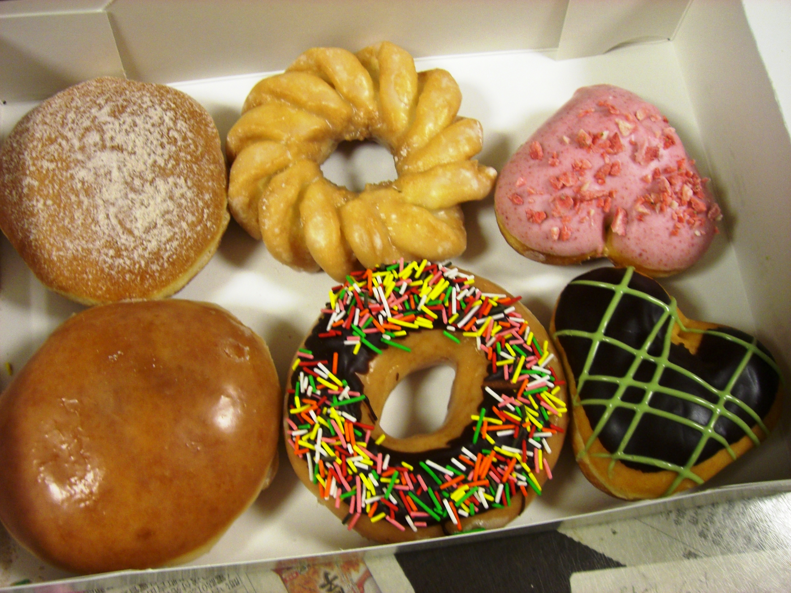 Krispy Kreme Doughnuts pack.